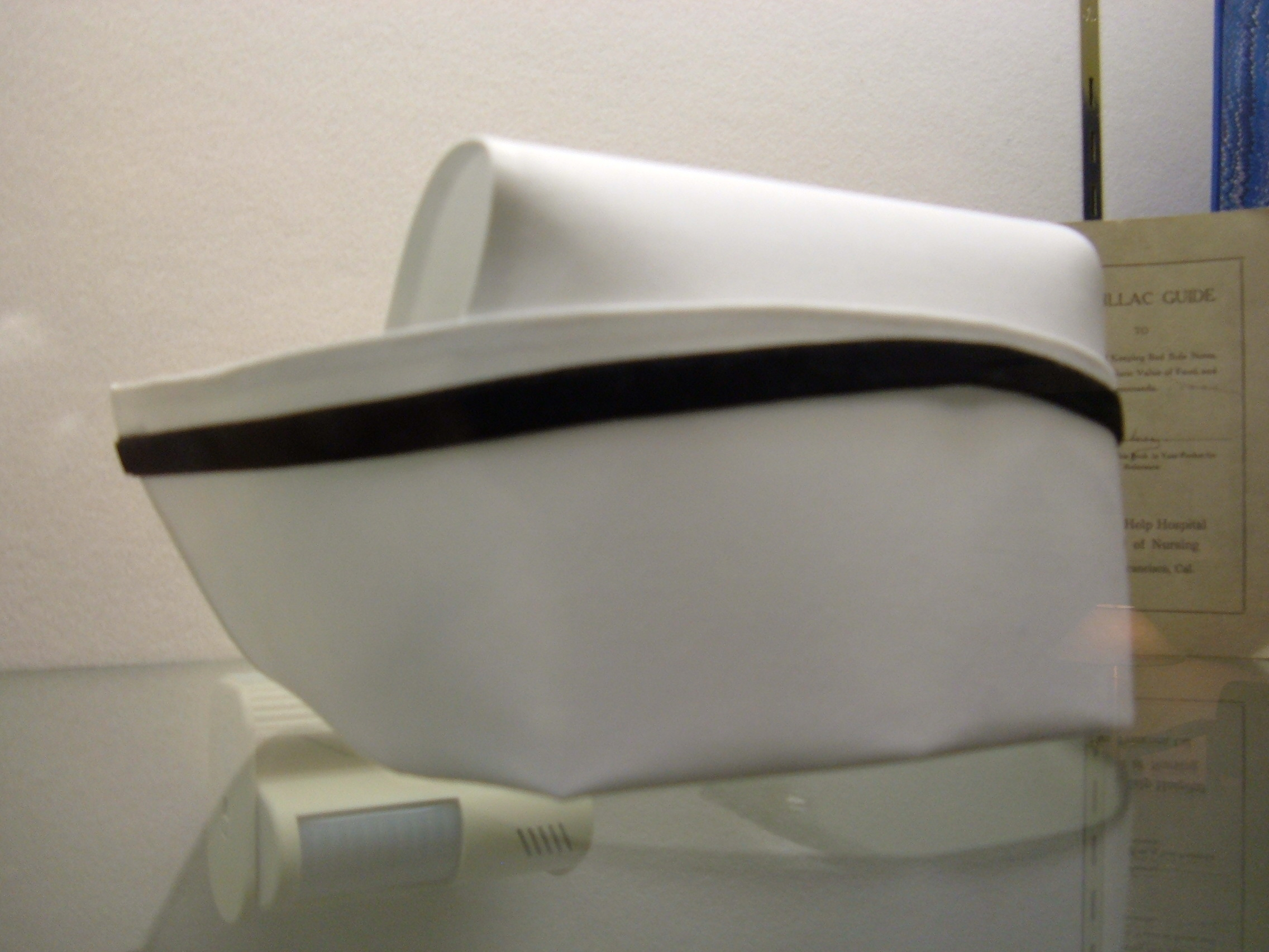 Nurse's cap on display at Seton Medical Center in Daly City, California.